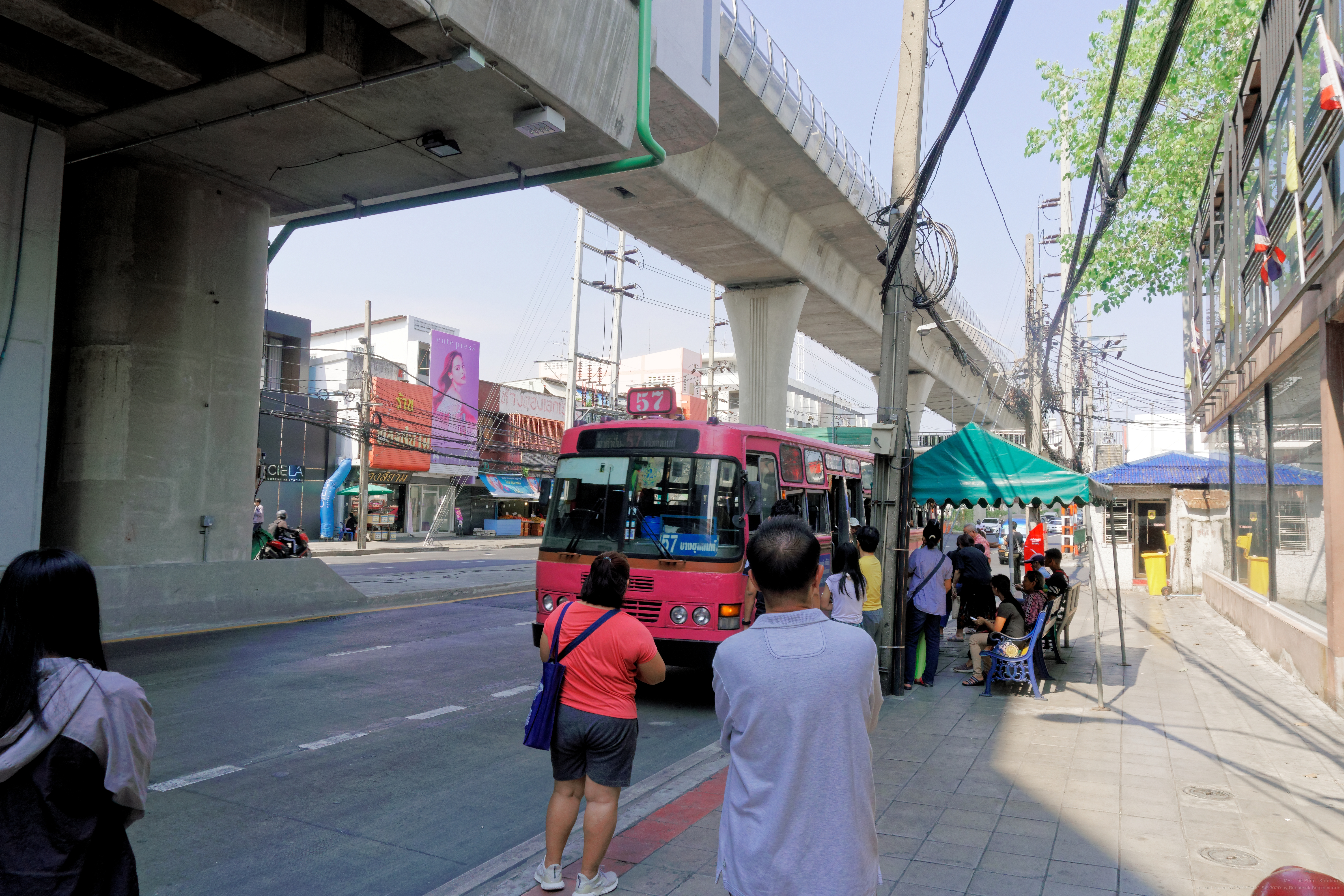 MRT Charan 13 – Bus stop near Phanitchayakan Thon Buri juction. The bus shown in the picture is line 57 private bus.